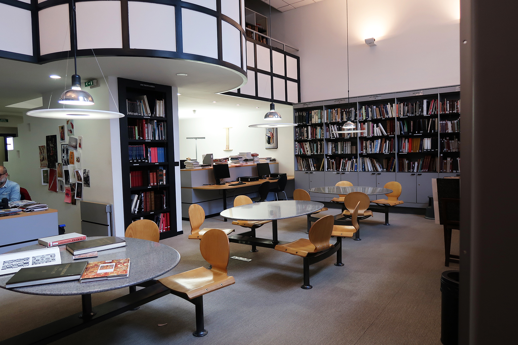 Library and photo library of the documentation center. MTMAD ((Musée des Tissus Musée des Arts Décoratifs) :Museum of Fabrics and Museum of Decorative Arts. Lyon.